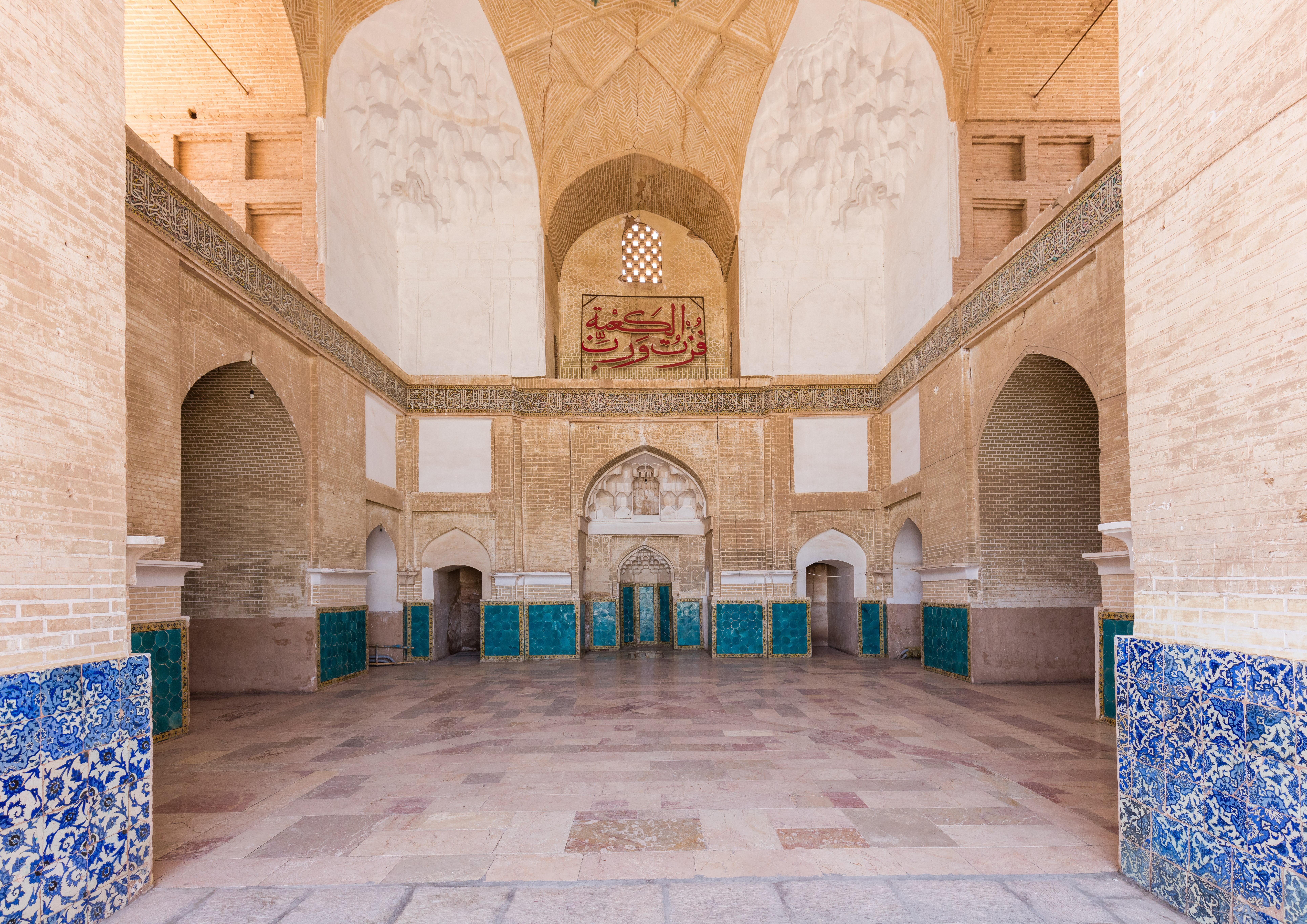 Malek mosque, Kerman, Iran